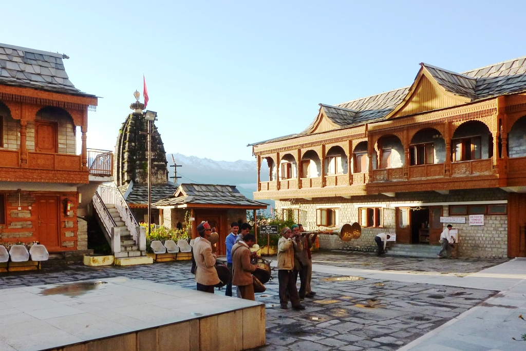 i took this photo of the band at the temple in 2010